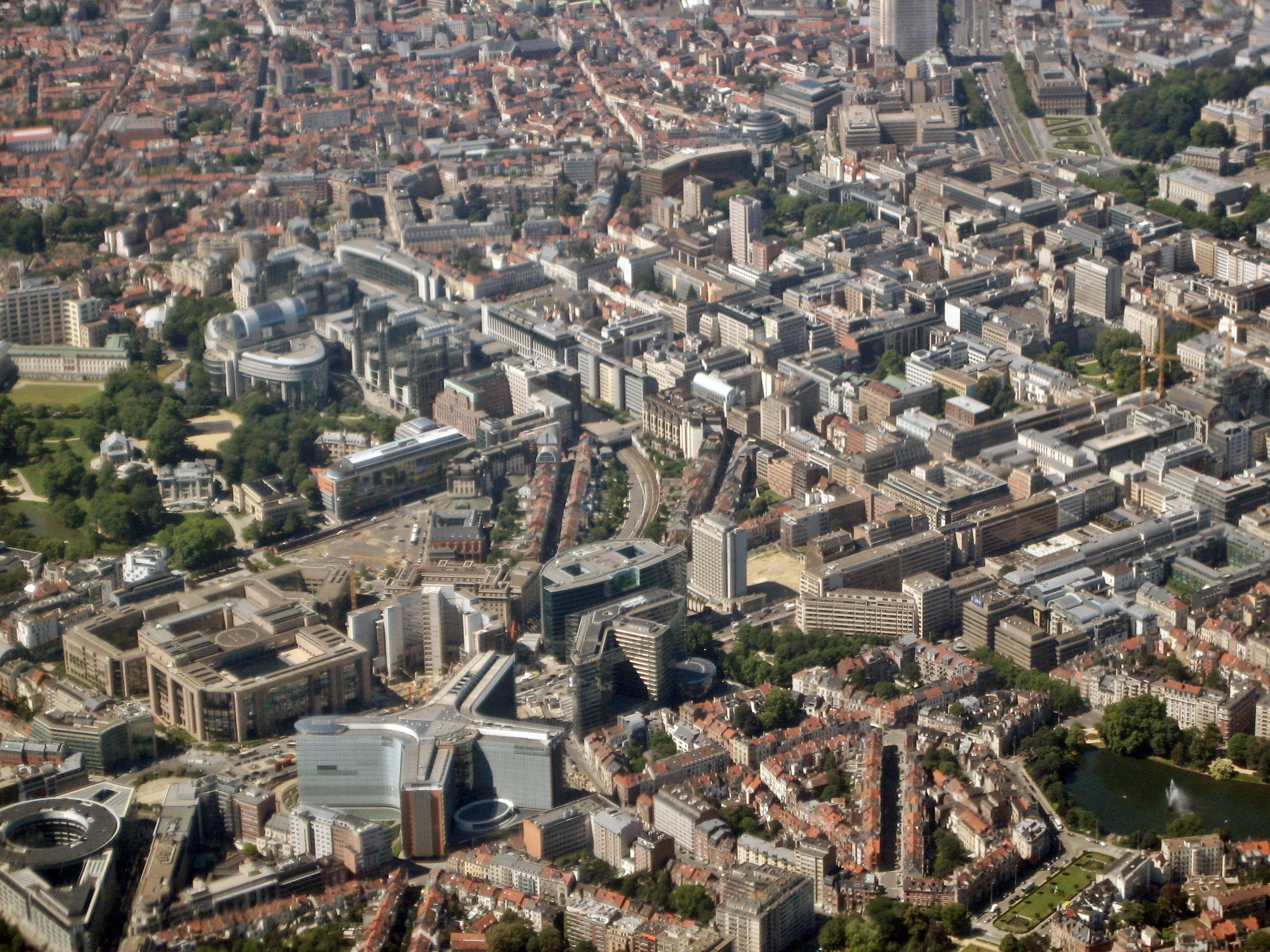 European Quarter (aka Quartier Léopold) in Brussels.